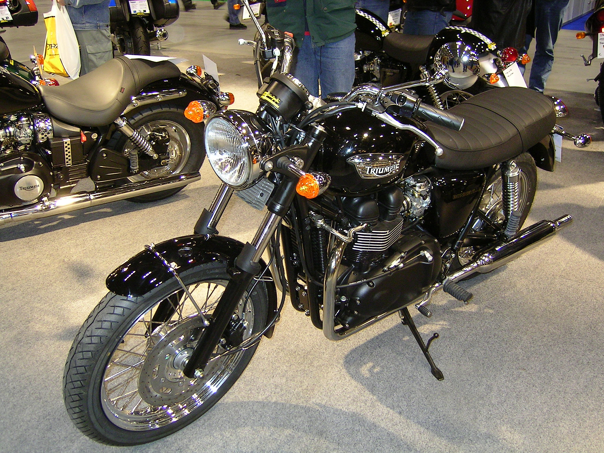 Triumph Bonneville Black 790cc (2004) made at Hinckley.